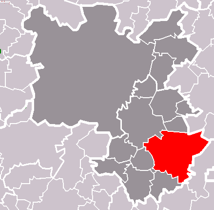 Location of Šťáhlavy municipality within Plzeň-City District.